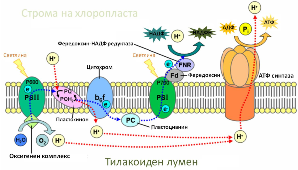 Light-dependent reactions of photosynthesis at the thylakoid membrane. It shows noncyclic phosphorylation (noncyclic electron transport). (Created using Powerpoint, based on: Taiz and Zeiger, Plant Physiology, 4th edition, ISBN 0-87893-856-7)